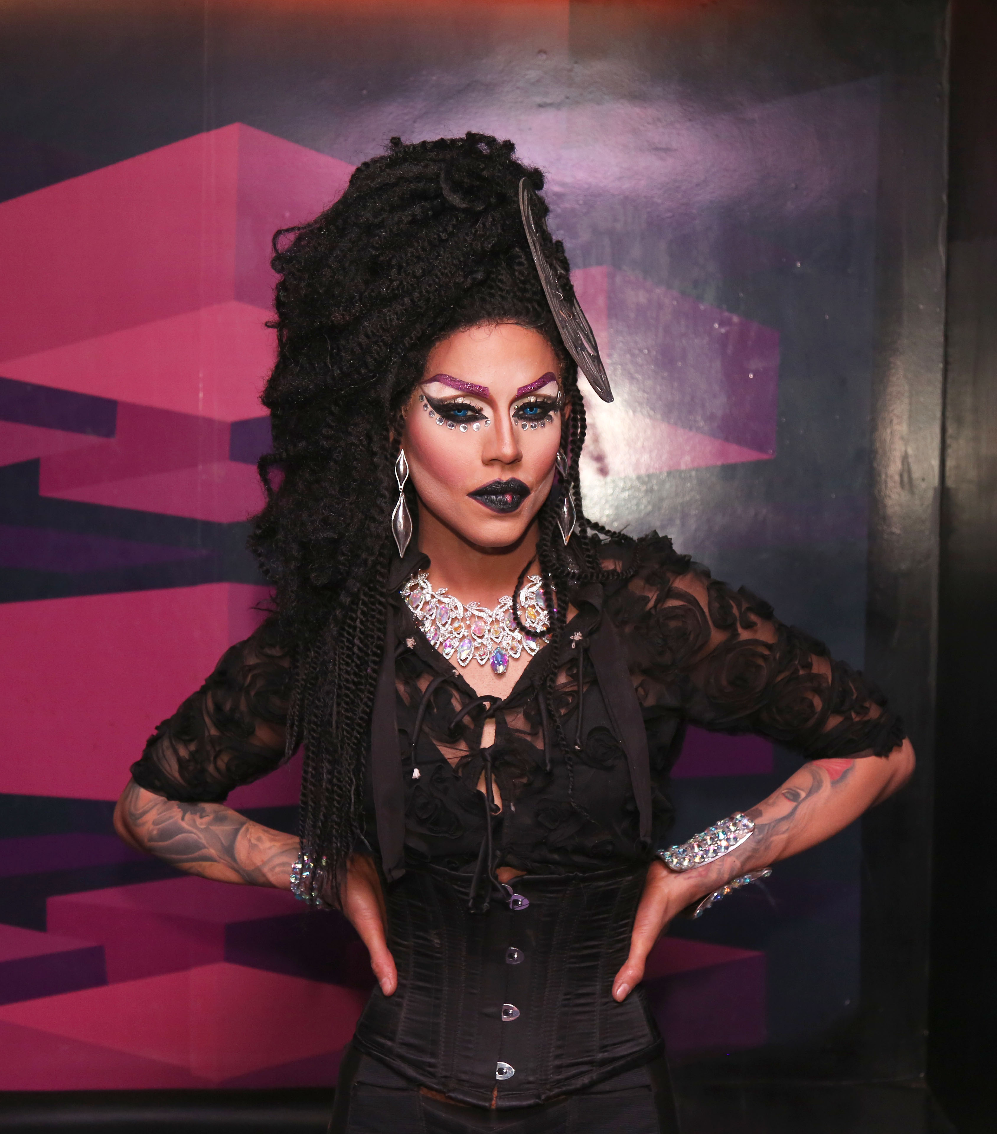 The drag queen Yara Sofia, shot by Victor Piroli in Belo Horizonte, Brazil